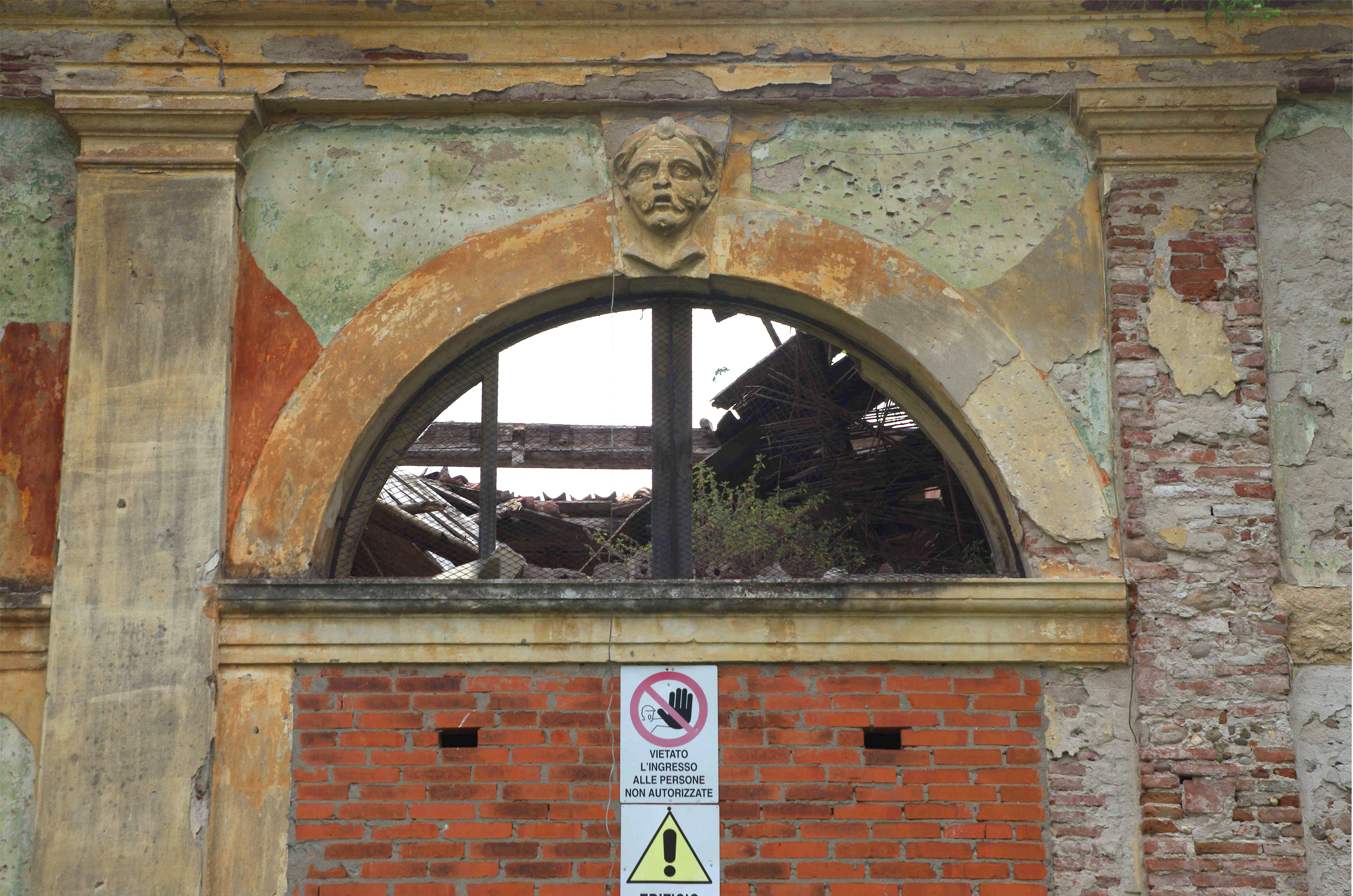 Typical example of mismanagement of the Italian cultural heritage, now being restored after decades of neglect